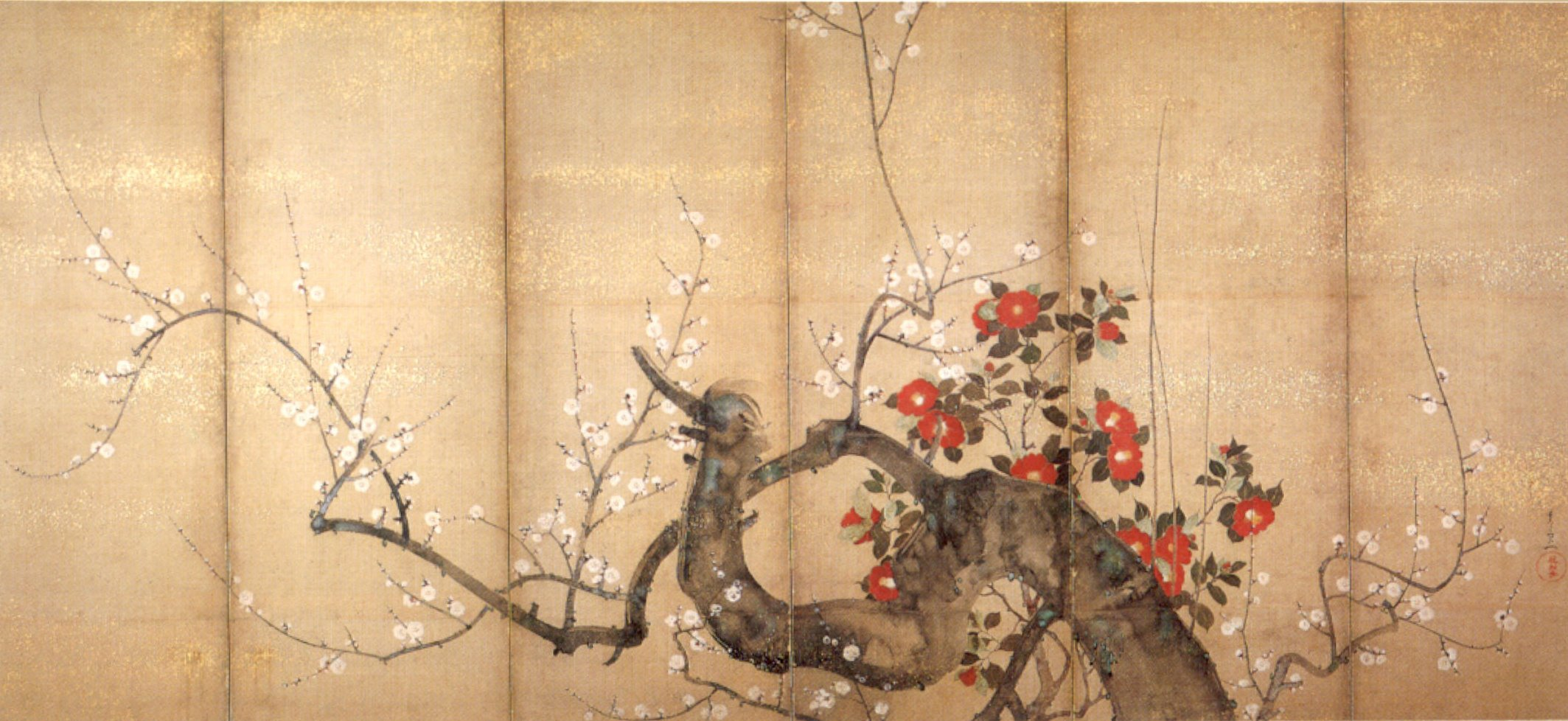 Flowering Plum and Camellia, six-fold screen by Suzuki Kiitsu